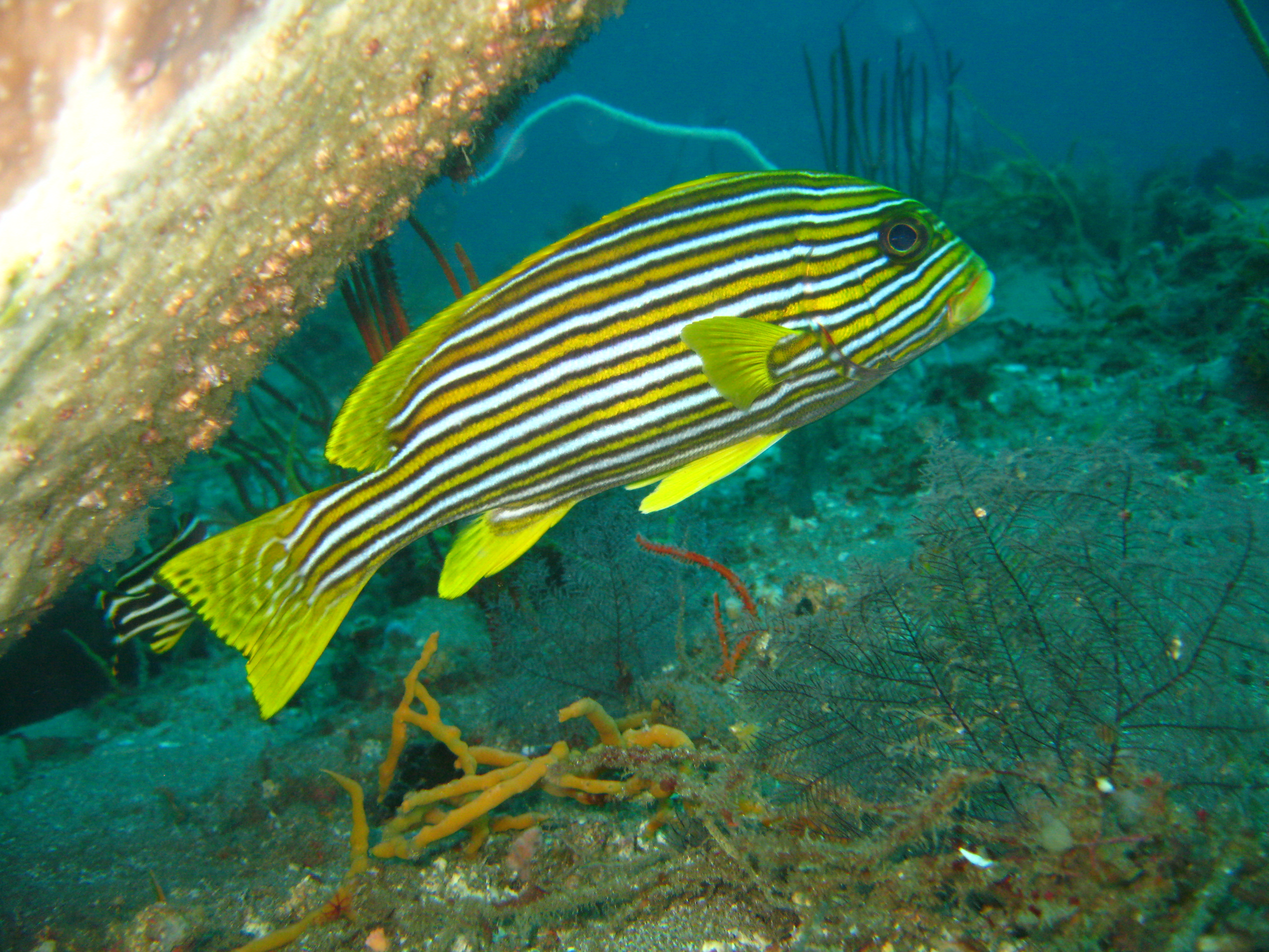 Image of an Ribboned Sweetlips, Plectorhinchus polytaenia. Taken at Anilao, Philippines.